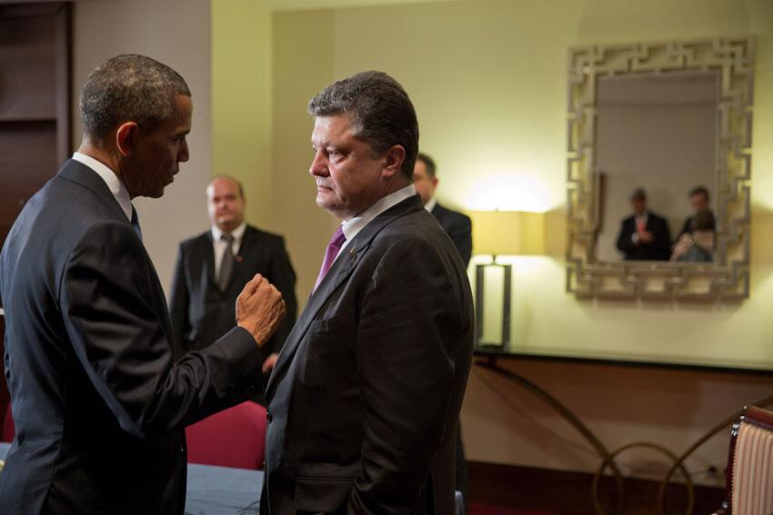 Pres Obama talks with Pres-elect Poroshenko of Ukraine following their bilateral meeting in Warsaw, Poland